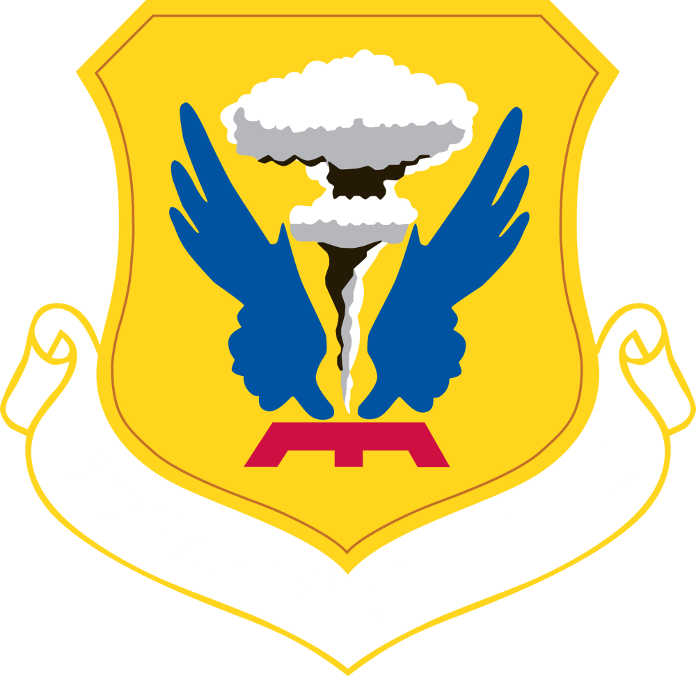 Emblem of the 509th Bomb Wing